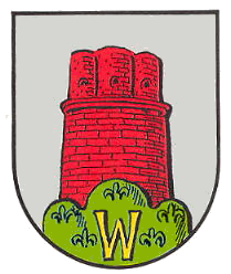 Coat of arms of Winzingen (Neustadt an der Weinstraße) till 1892